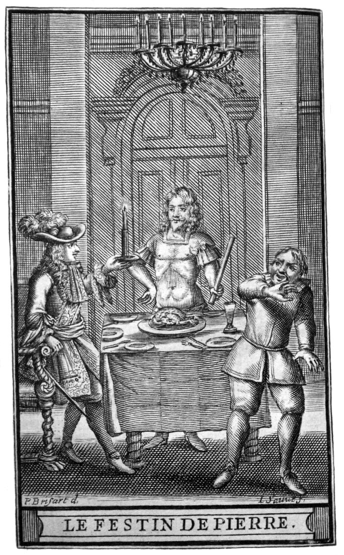 Frontispiece to Molière's Dom Juan